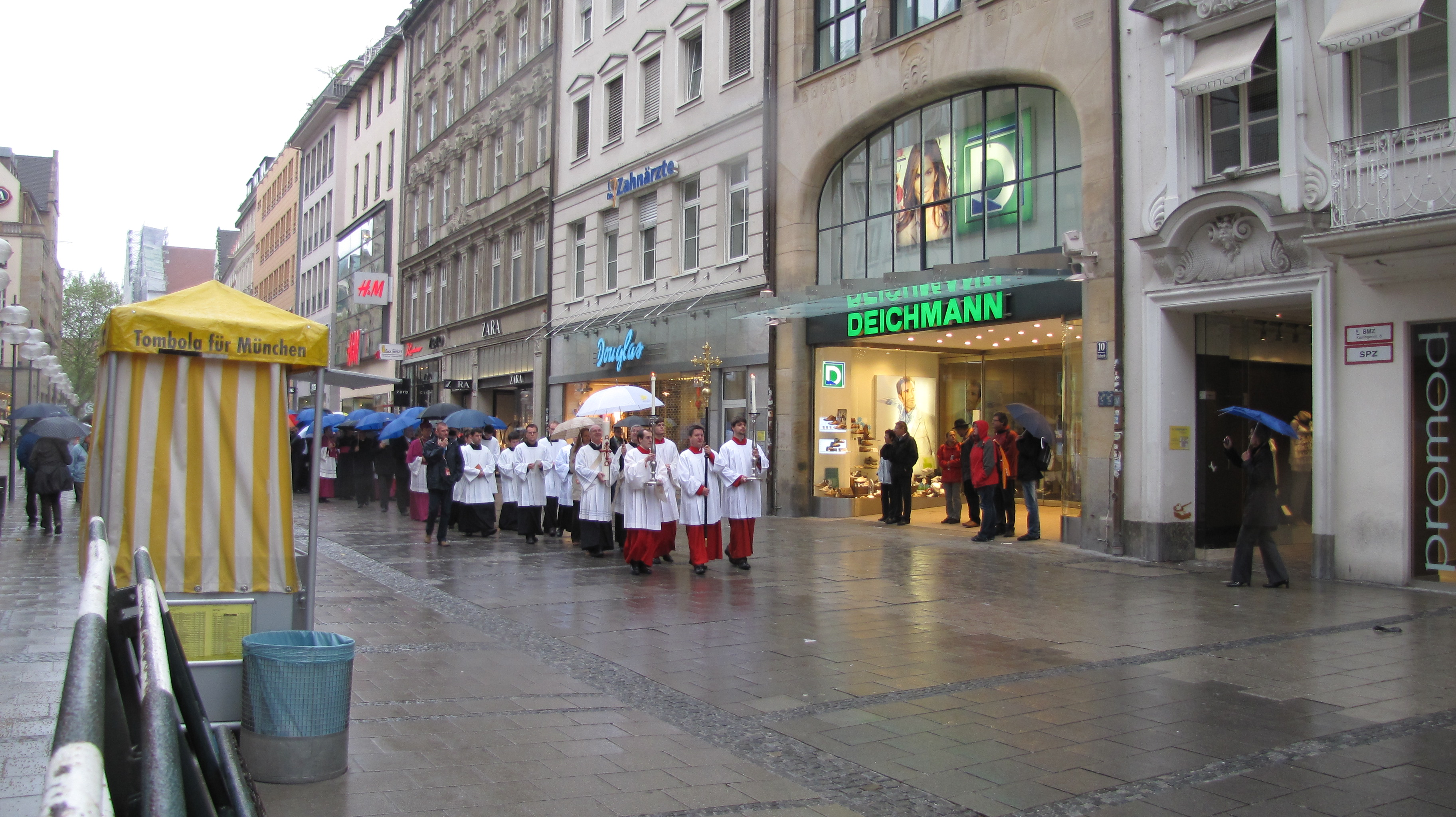 Procession (Kaufingerstr.) from Liebfrauendom to Odeonsplatz in Munich on Ascension day 2010 as part of the celebrations of the 2nd Ecumeniocal Kirchentag